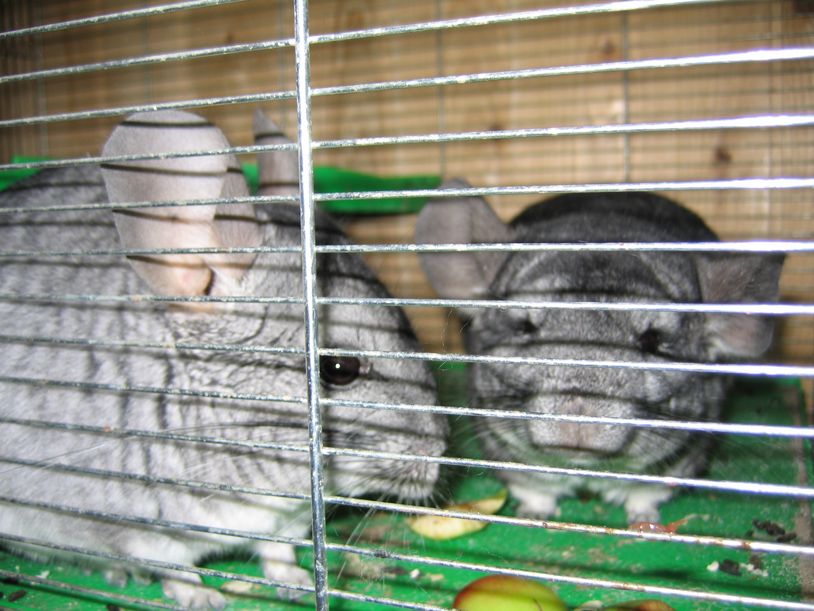 2 pet Chinchillas.